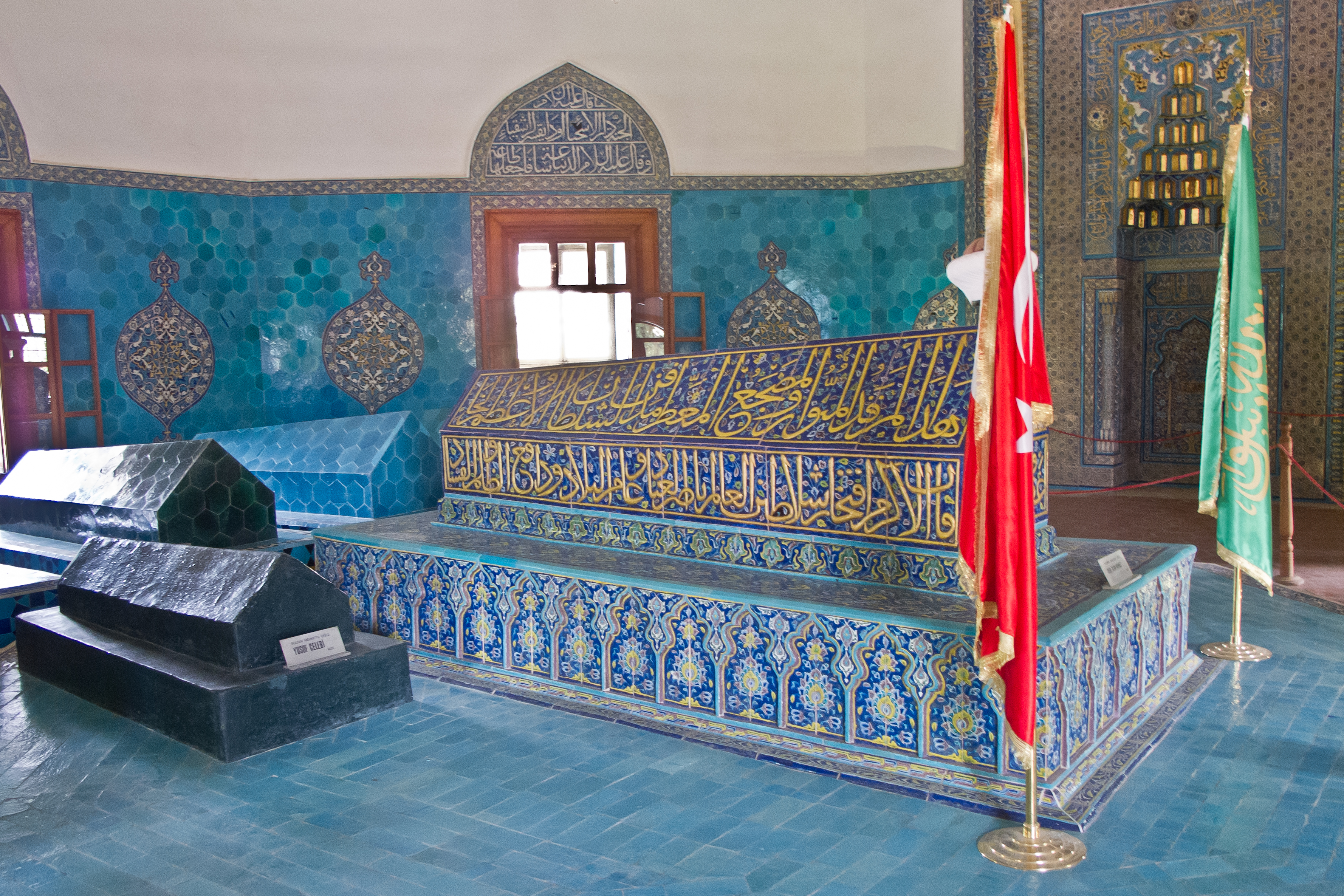 Mausoleum of the fifth Ottoman Sultan, Mehmed I, in Bursa, Turkey.